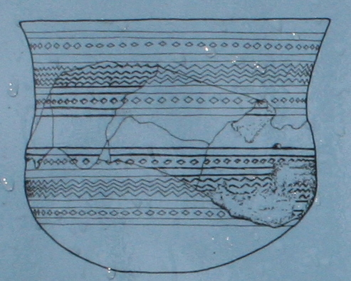 Cist grave at Waldkater, Dölauer Heide, Halle (Saale)